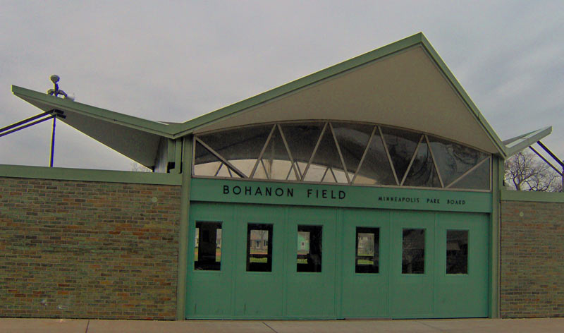 Bohanon Park Facilities Building. taken by Caleb Musselman